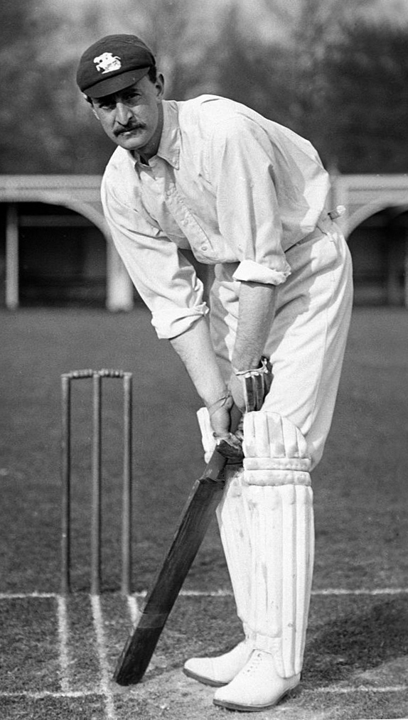 Reginald Erskine Foster, Worcestershire and England, circa 1905.